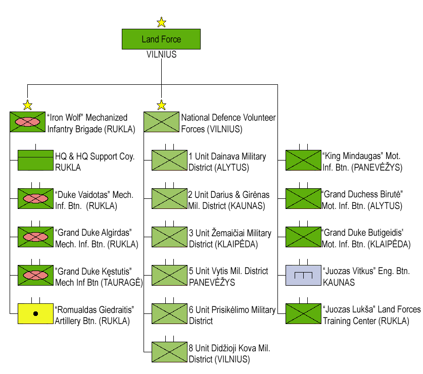 Structure of the Lithuanian Land Forces 2012